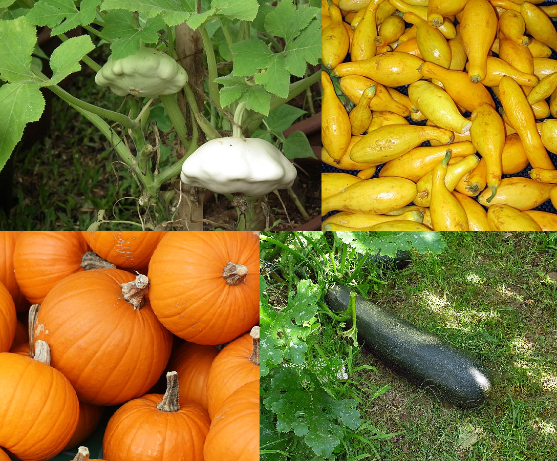 A collage featuring four well known cultivars of Cucurbita pepo. From top-left, clockwise: pattypan squash, yellow summer squash, zucchini, pumpkins.